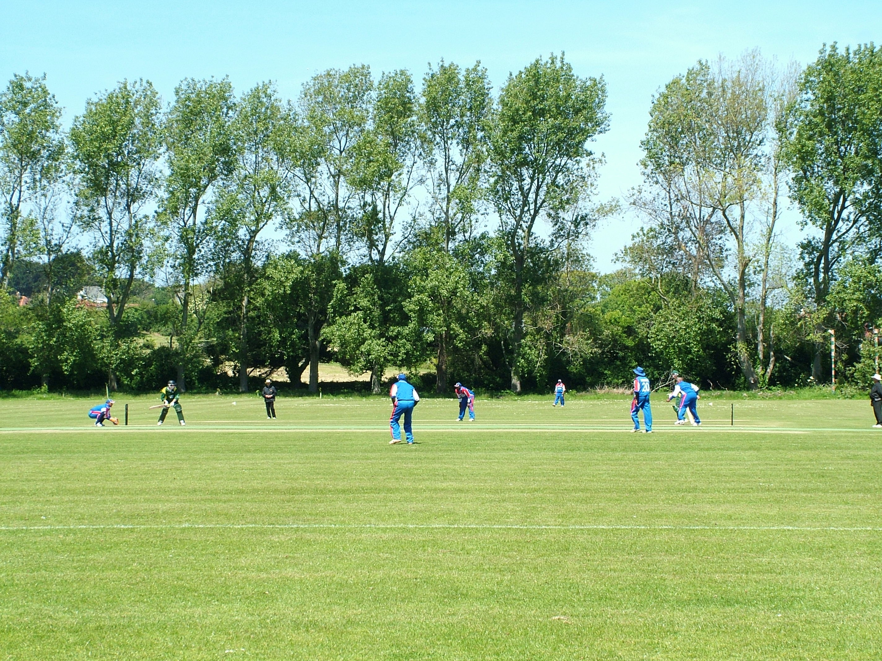 Guernsey playing Bermuda one day cricket match at the College Field